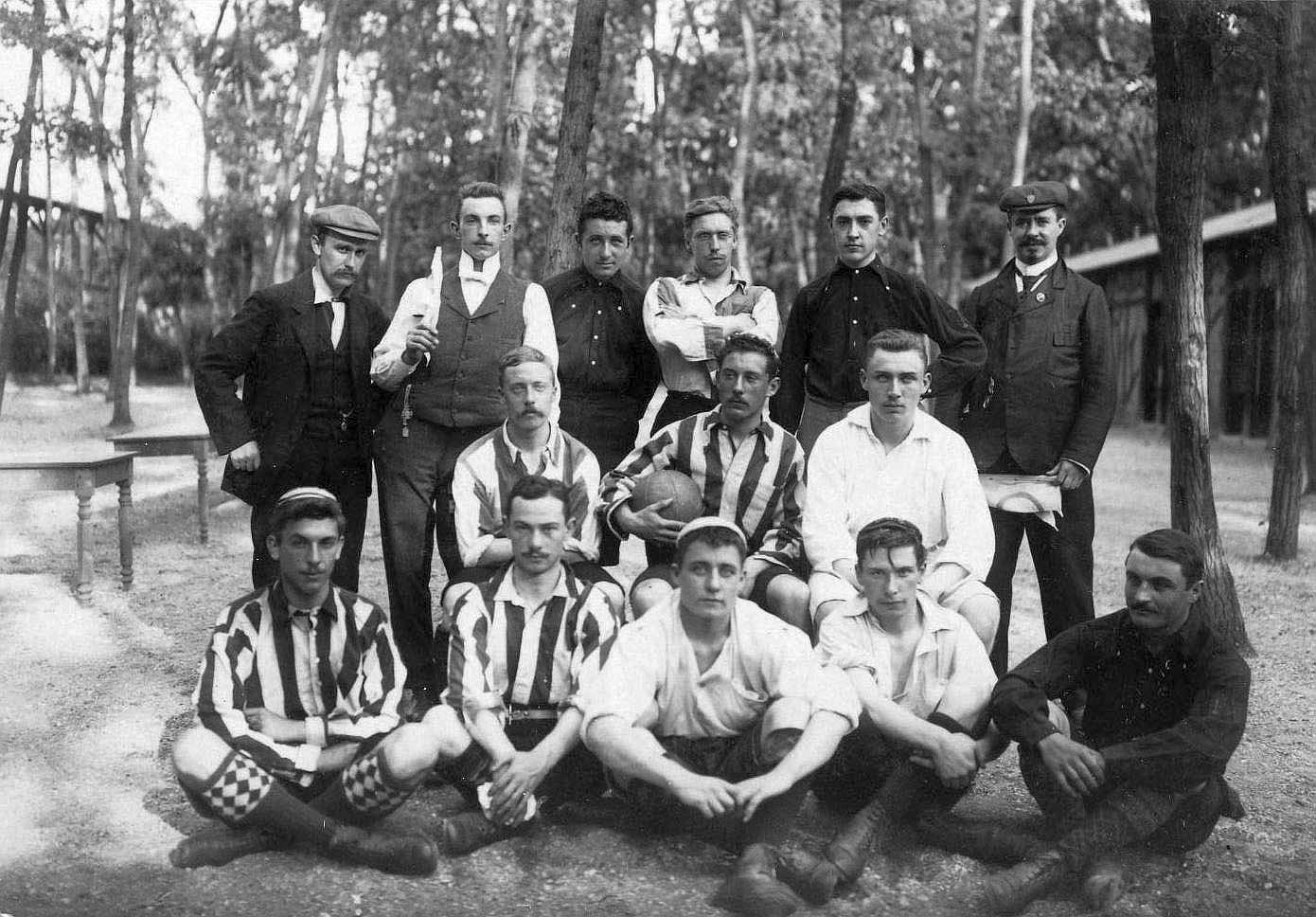 Belgian student association football team at the 1900 Olympic Games